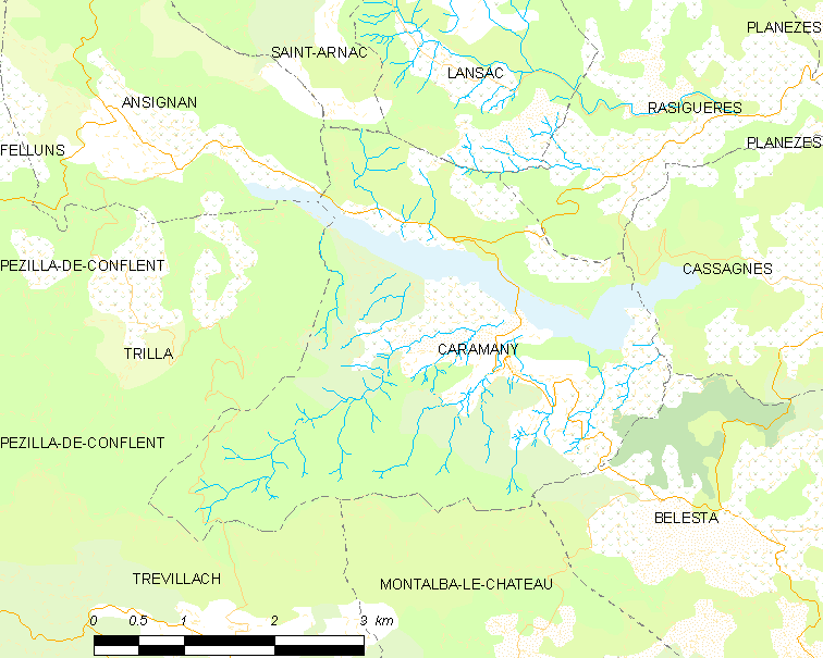 Map of French municipality